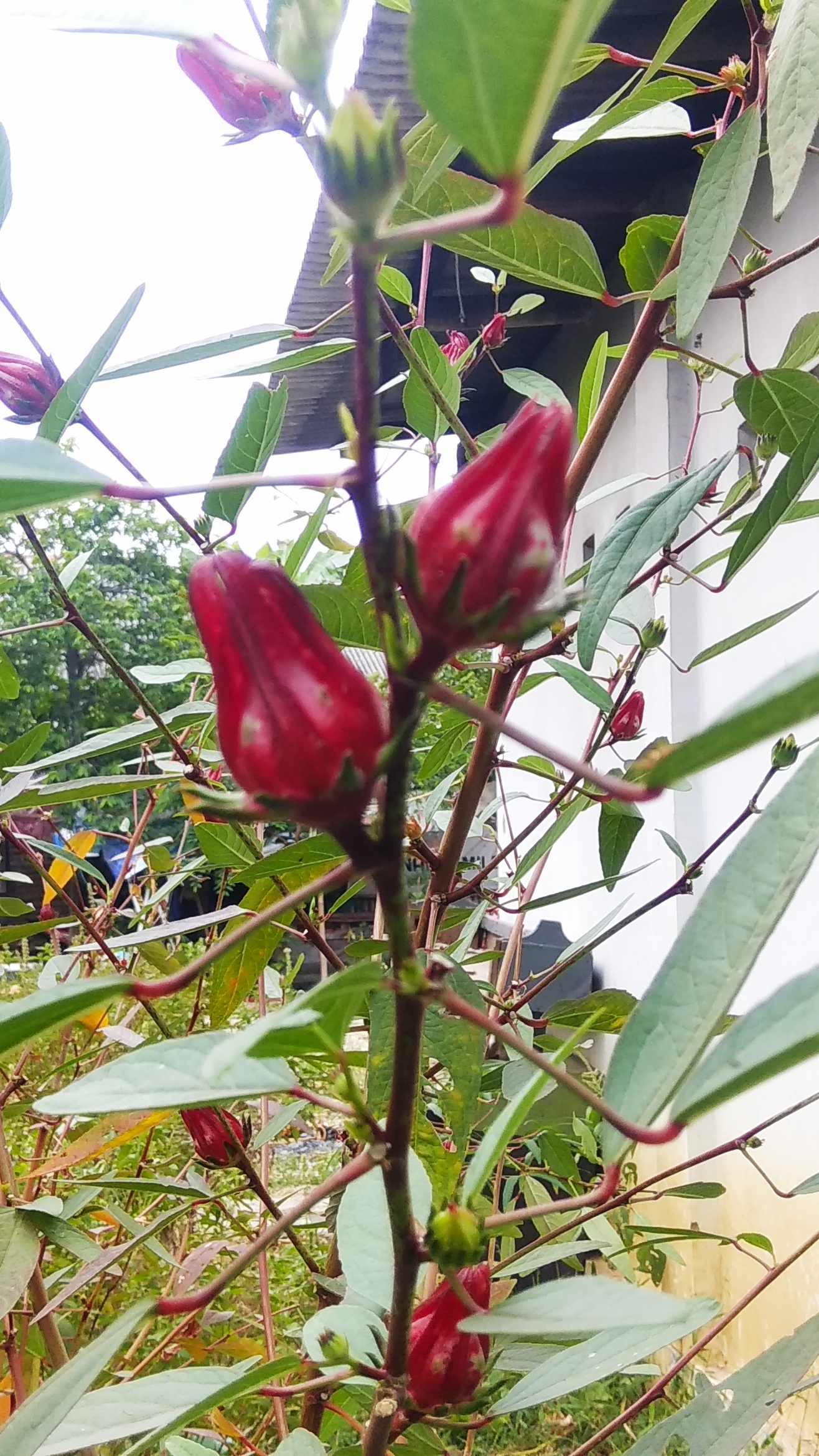 Roselle